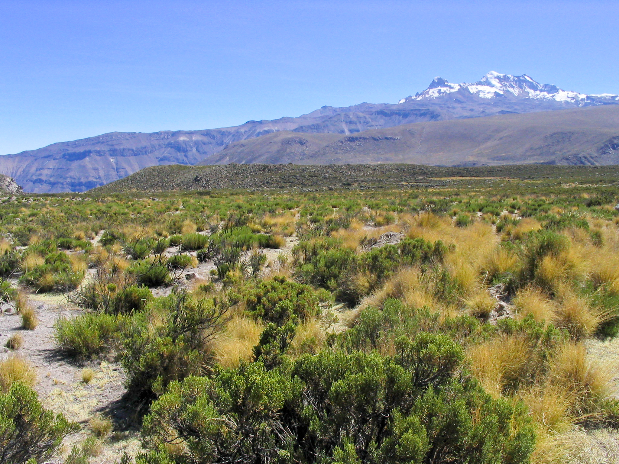 Puna grassland and the volcano Solimana, southern Peru.